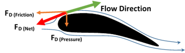 Flow across an airfoil showing the relative impact of drag force to the direction of motion of fluid over the body. This drag force gets divided into frictional drag and pressure drag. The same airfoil is considered as a streamlined body if friction drag (viscous drag) dominates pressure drag and is considered as bluff body when pressure drag (form drag) dominates friction drag.